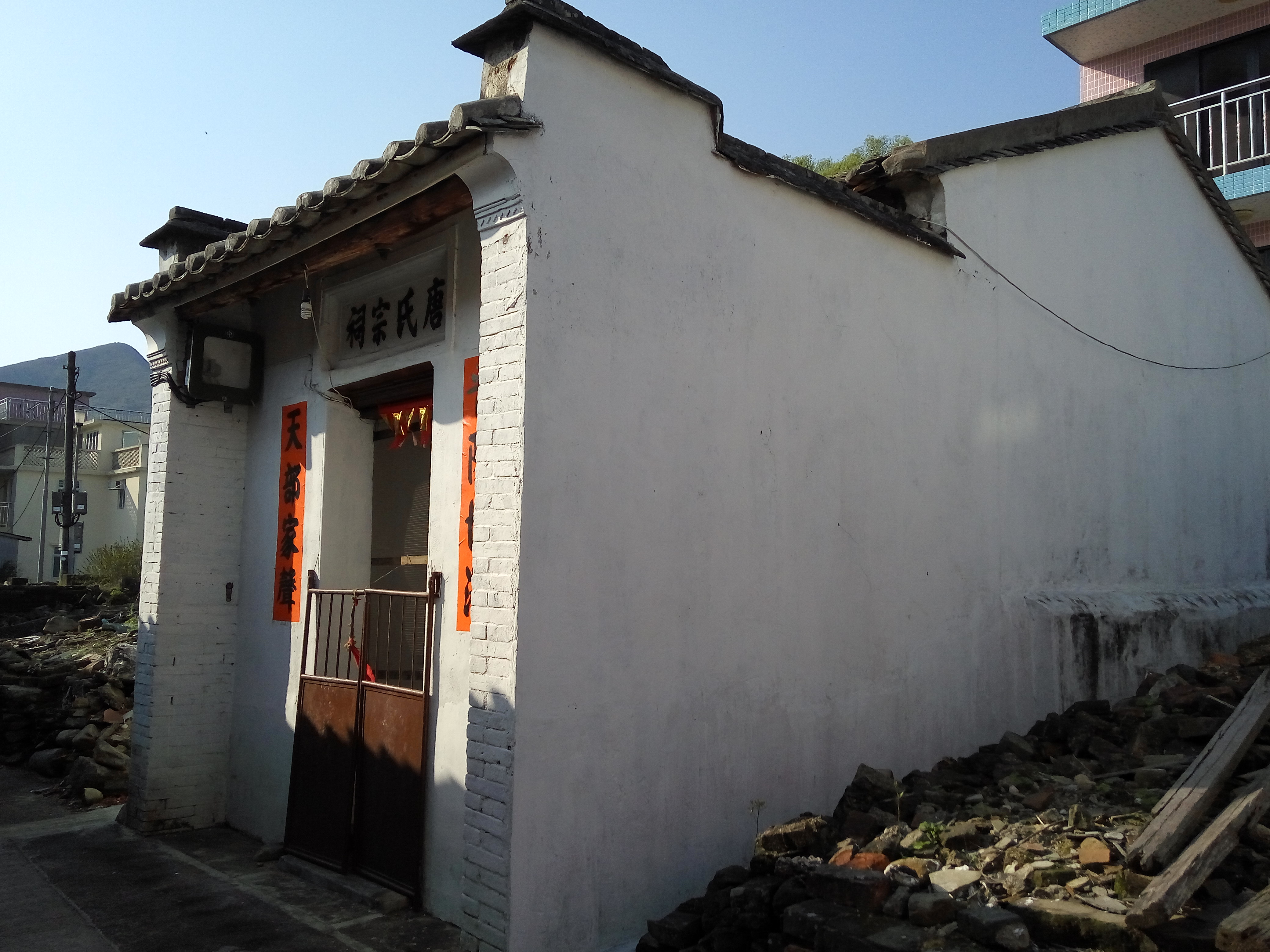 Fanling, Man Uk Pin, Tong Ancestral Hall